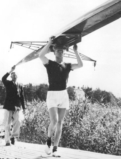 1952 Helsinki Finland HF Steenacker in Olympic Single Skulls Event Press Photo